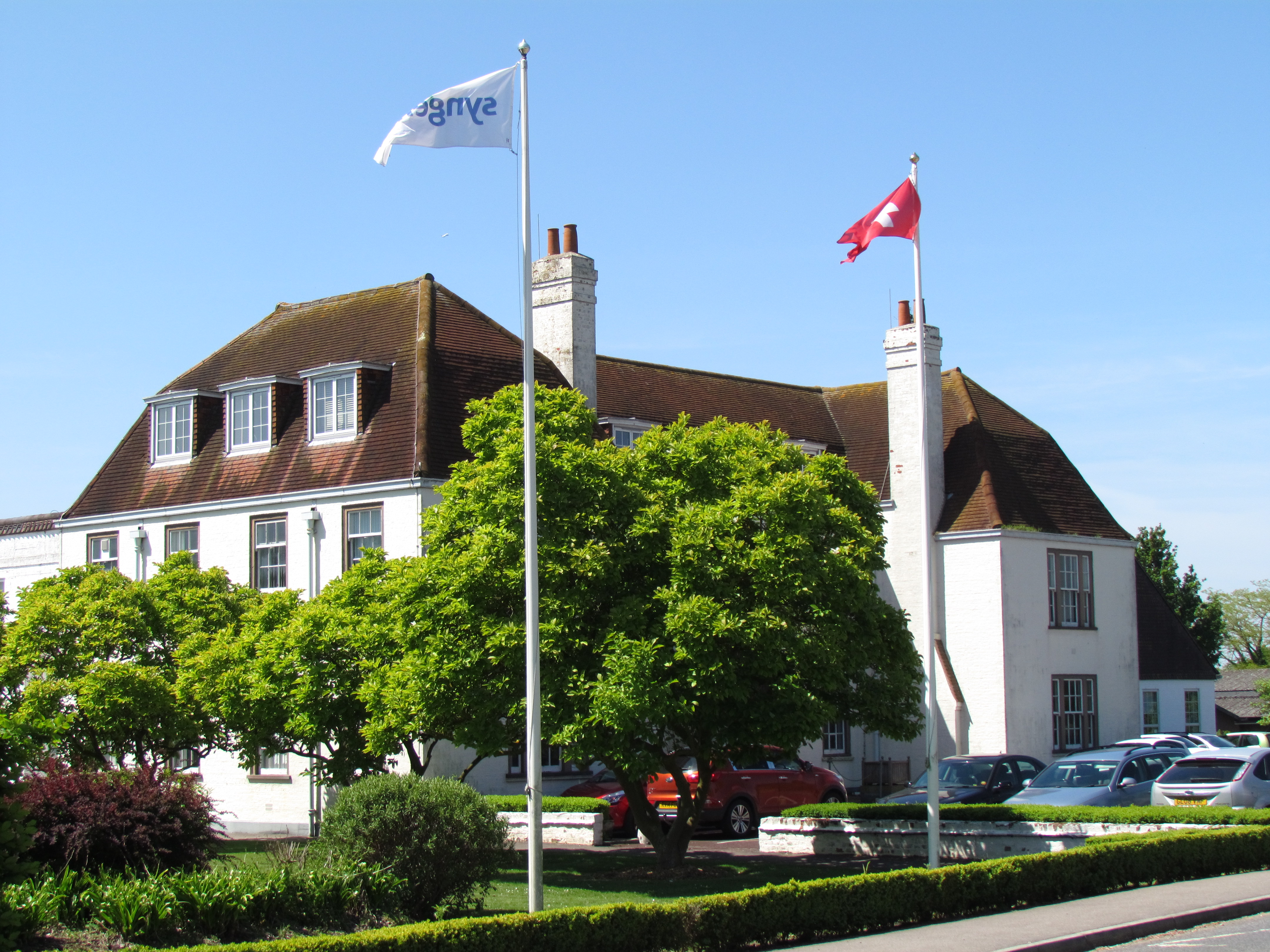 Jealott's Hill House was opened on 28 June 1929 as the offices, laboratory and library of ICI's Agricultural Research Station. It is now part of Syngenta's research site.